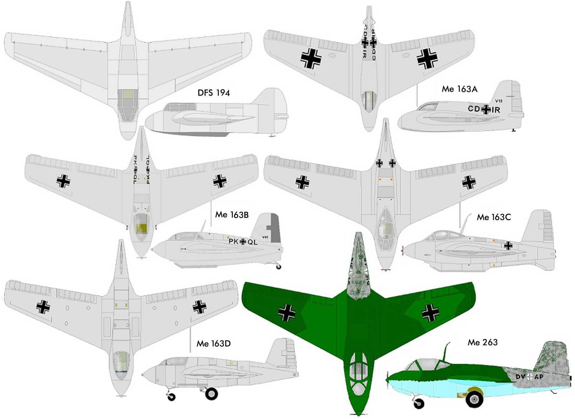 Me163 Variants